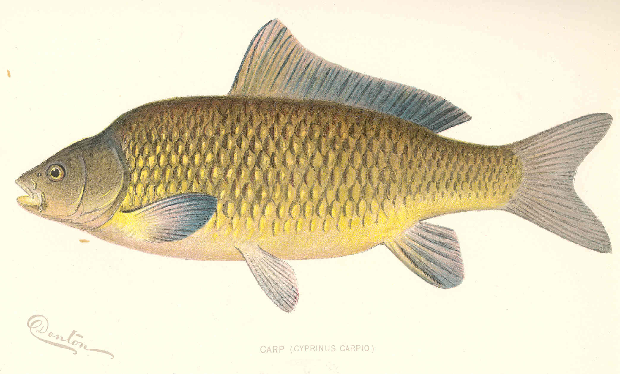 Carp (Cyprinus carpio) Subject: Carp Tag: Fish